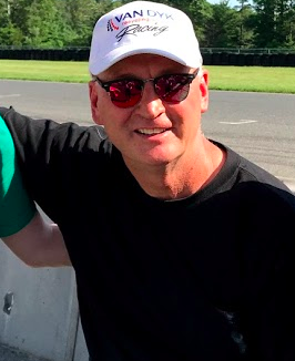 NASCAR driver Dale Quarterley at New Jersey Motorsports Park.